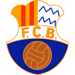 Historical badge of Club de Futbol Badalona. Digitally enhanced and with alpha channel.